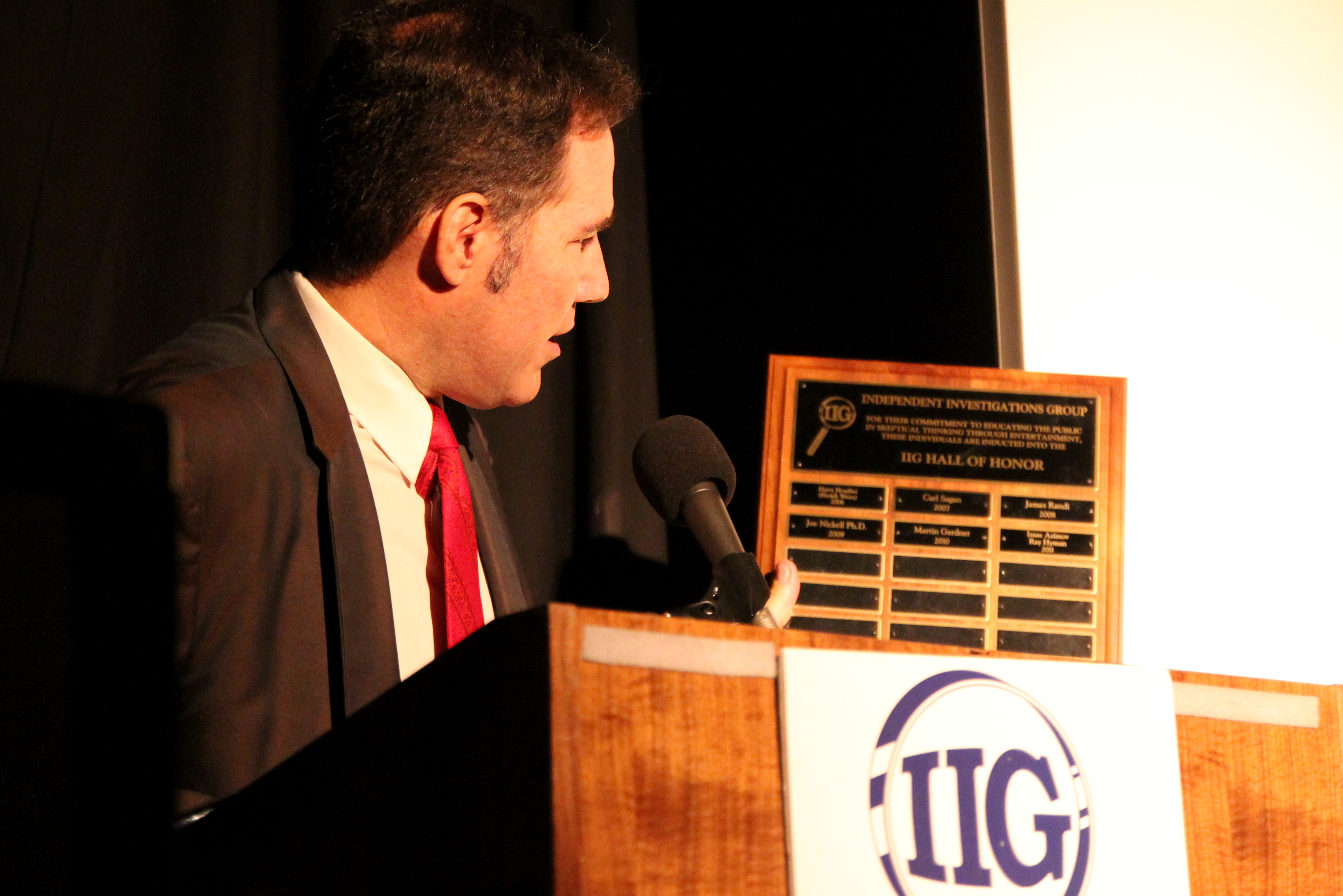 James Underdown presents the IIG Houdini Hall of Honor award to Isaac Asimov. The plaque reads "For their commitment to educating the public in skeptical thinking through entertainment, these individuals are inducted into the IIG Hall of Honor" Past inductees have been James Randi and Carl Sagan.